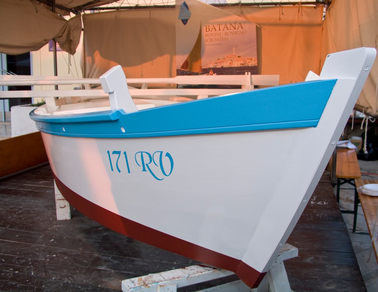 The fifth batana called Liliana, named after Rovinj’s singer Liliana Budicin Manestar